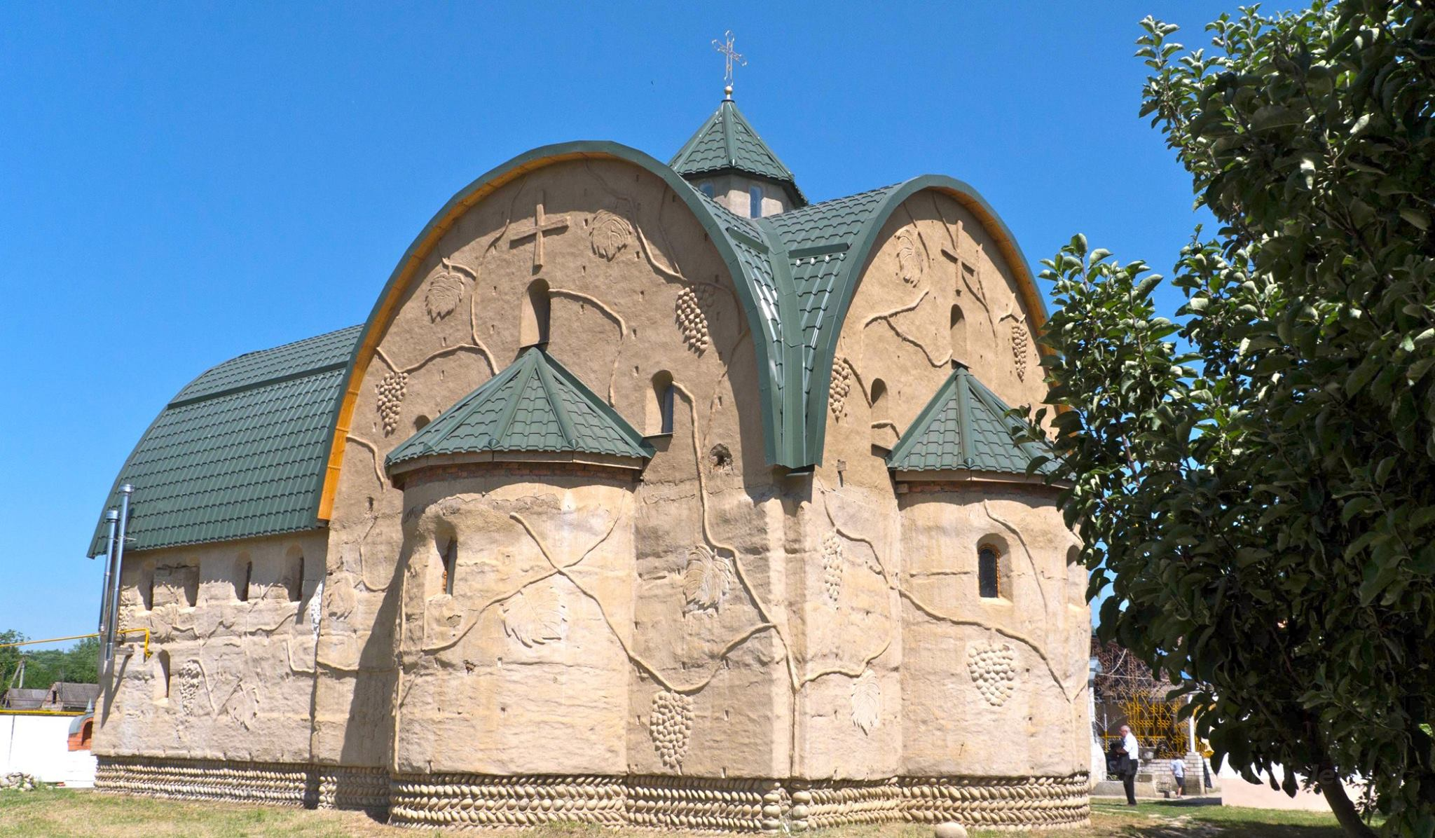 Roman Catholic church in Blagoveschenka village, Proklhadnenskiy region, Kabardino-Balkarskaya Republic, Russian Federation